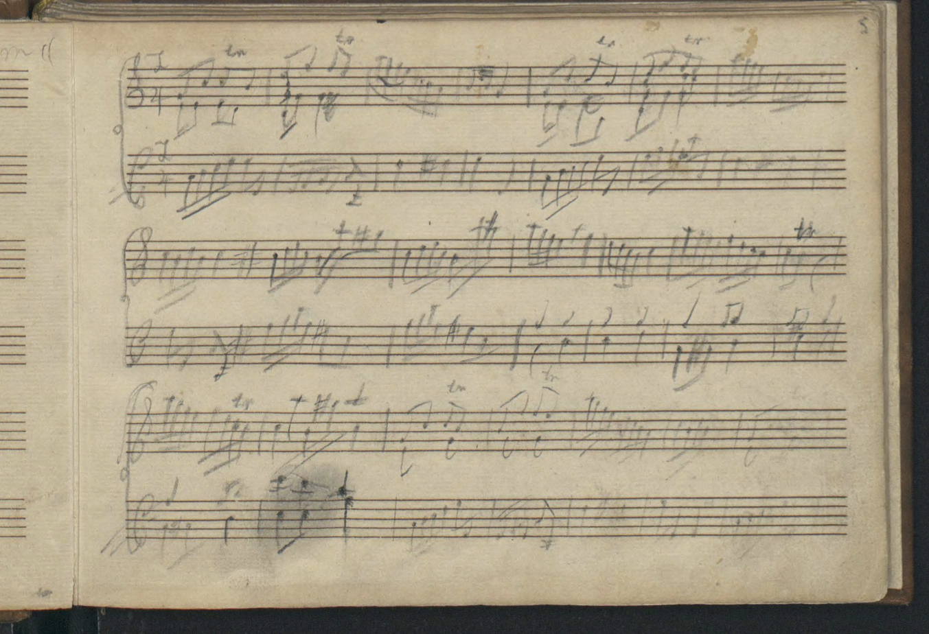 3rd page from the "Londoner Skizzenbuch"